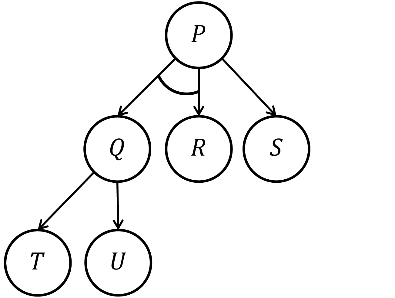 A revised And/Or tree made by saumaun in Microsoft Word, exported to .png for transparency. The content of this image is the same as the previous version, but the image was redone for quality.